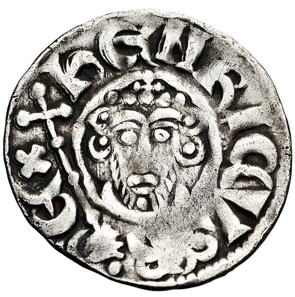 English silver penny minted during the reign of King John, circa 1209